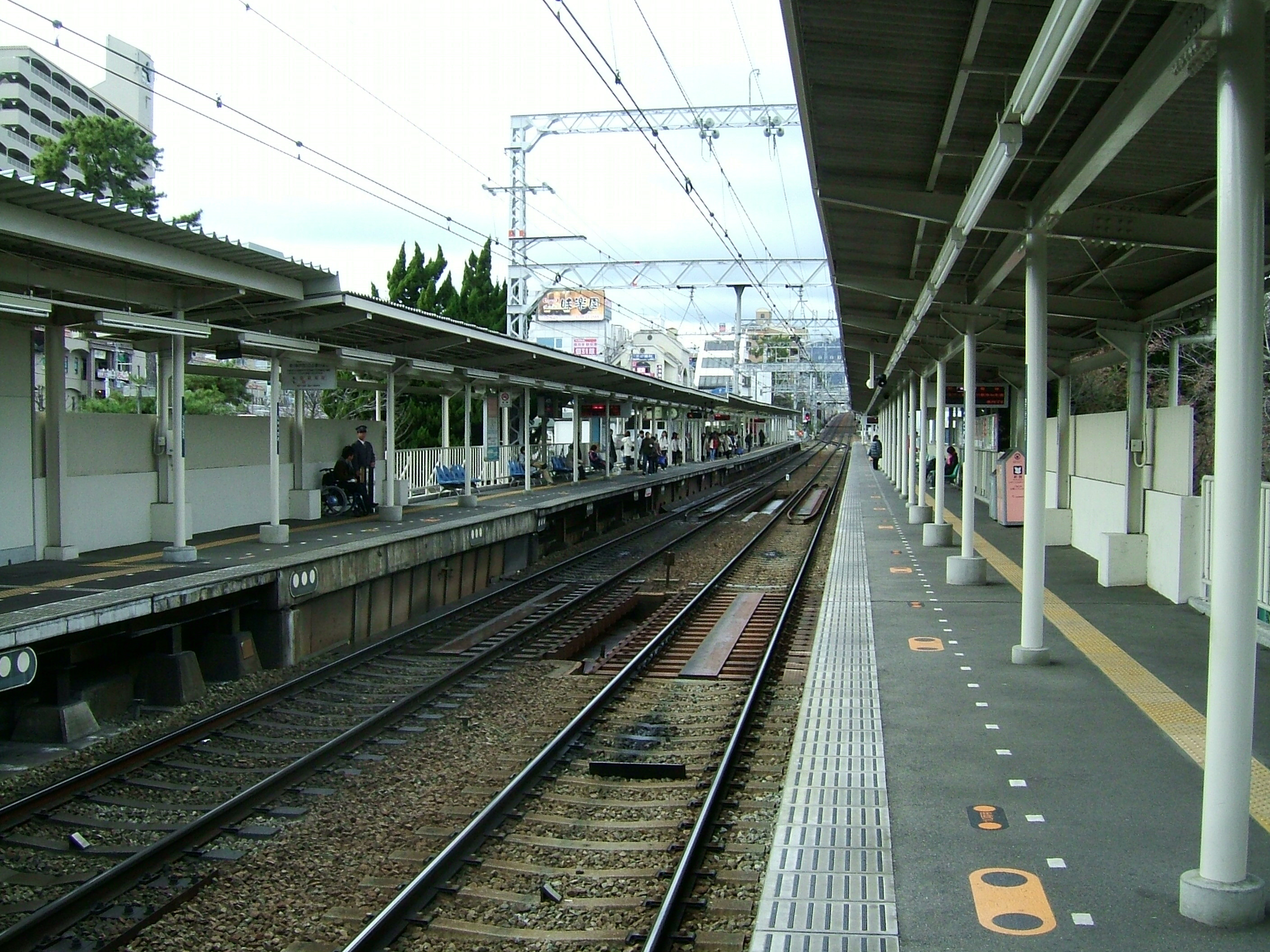 The platforms of Shukugawa Station, Hankyū Kobe Main Line